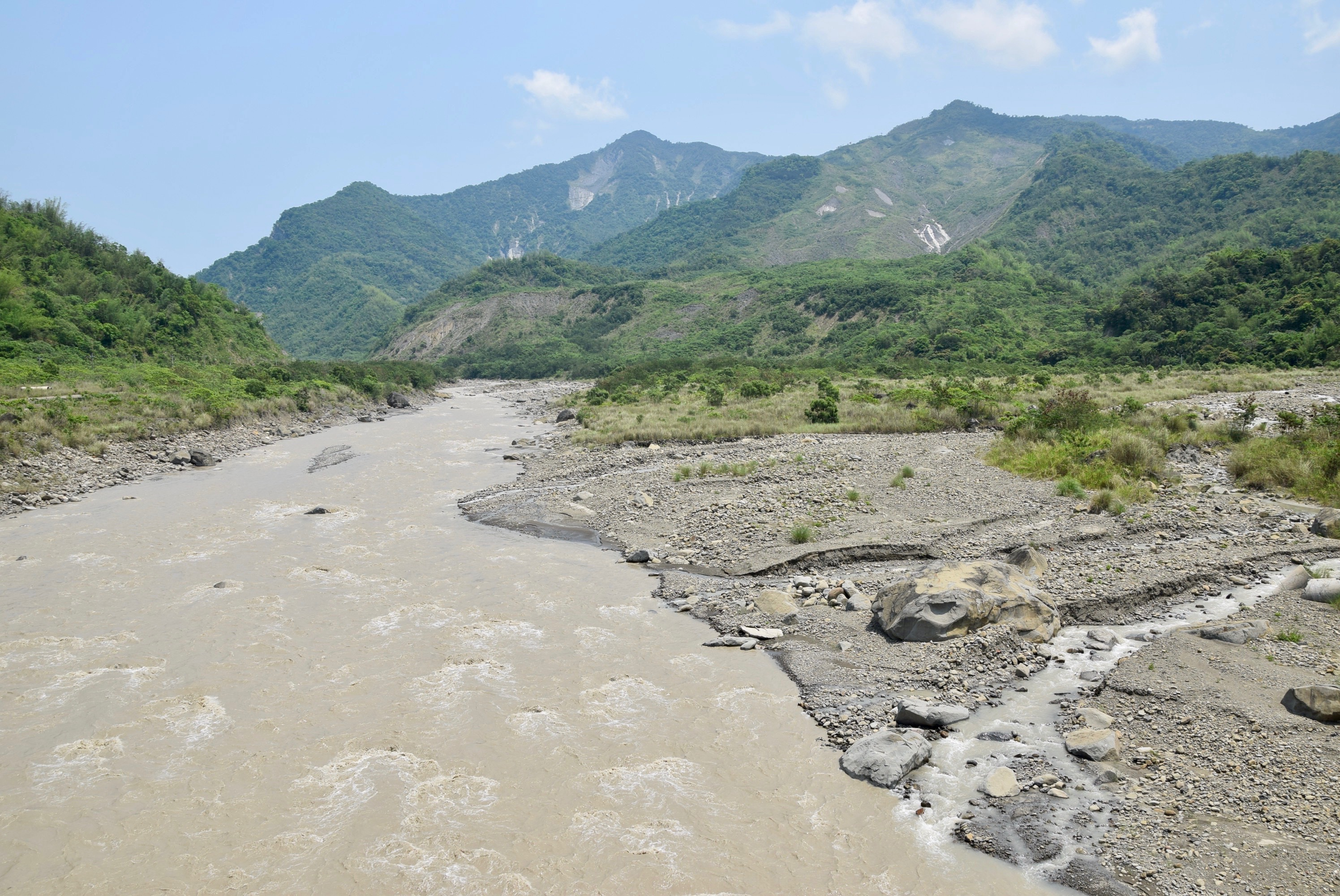 Xiaolin community under Xiandu Mountain, which was buried by the deadly typhoon Morakot in 2009. 中文（台灣）: 八八風災後的小林村。